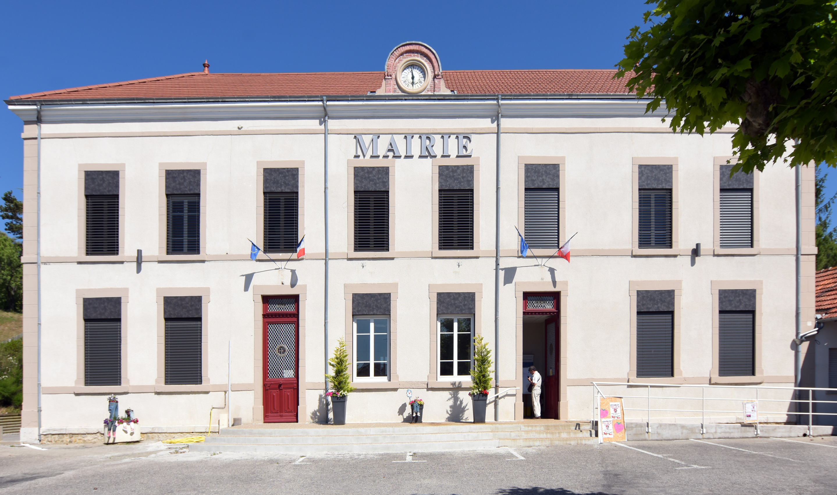 Épinouze, Mairie